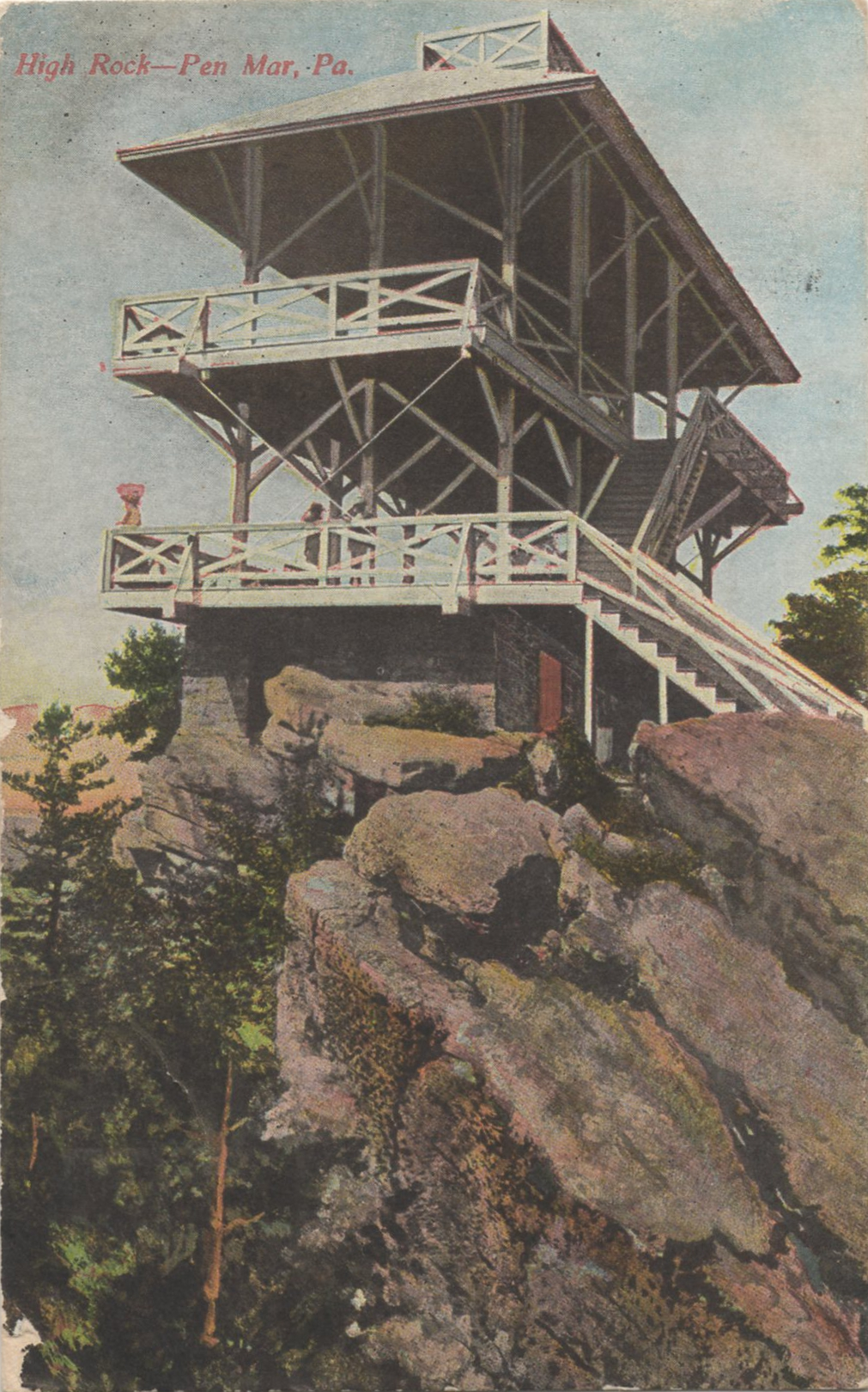 Overlook at High Rock, south of Pen Mar, Maryland. Misattributed on the card as being in Pennsylvania.